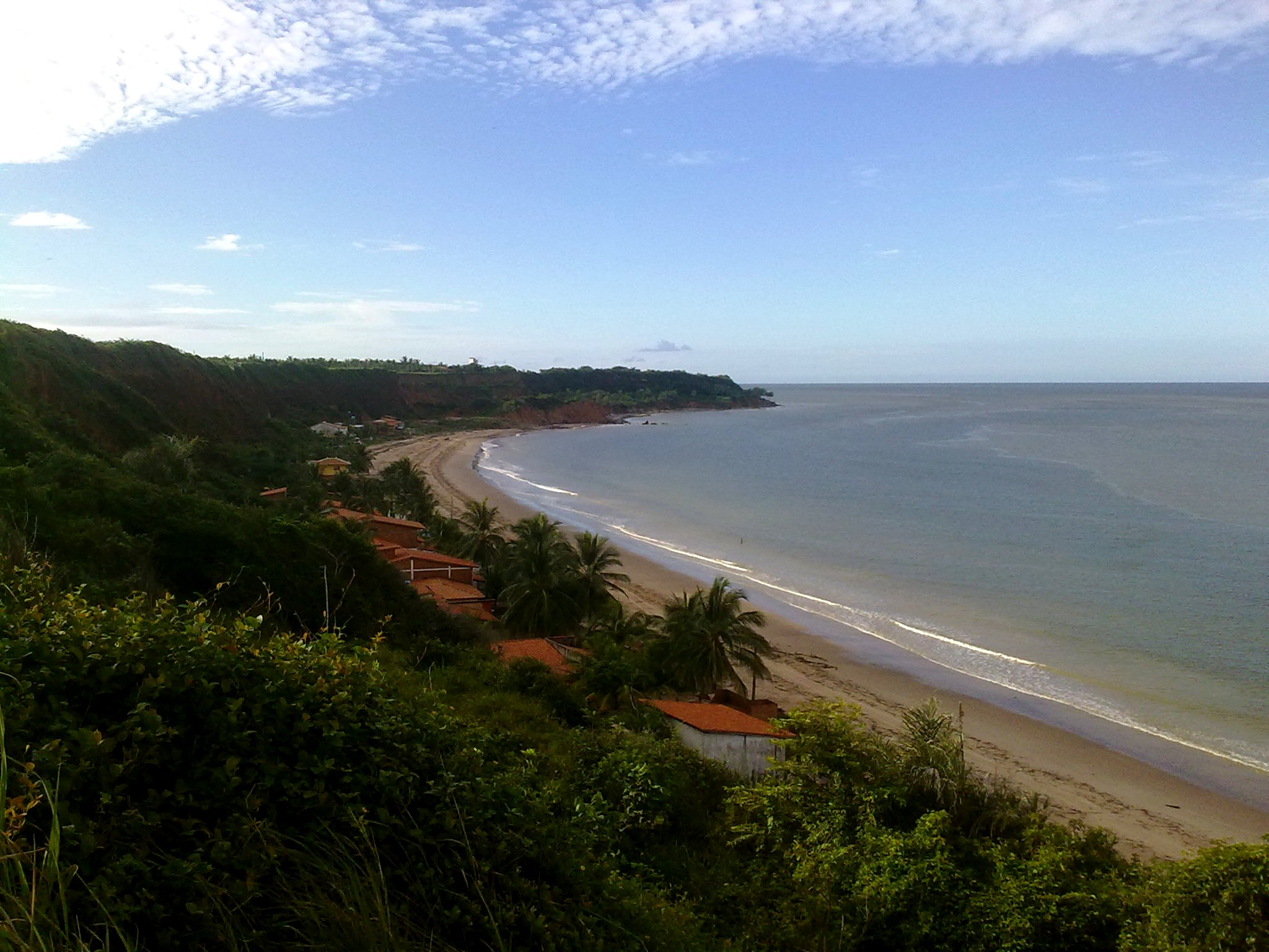 Ponta Verde beach